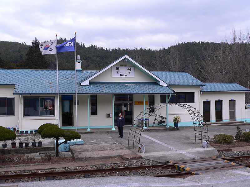 KORAIL Okgok Station